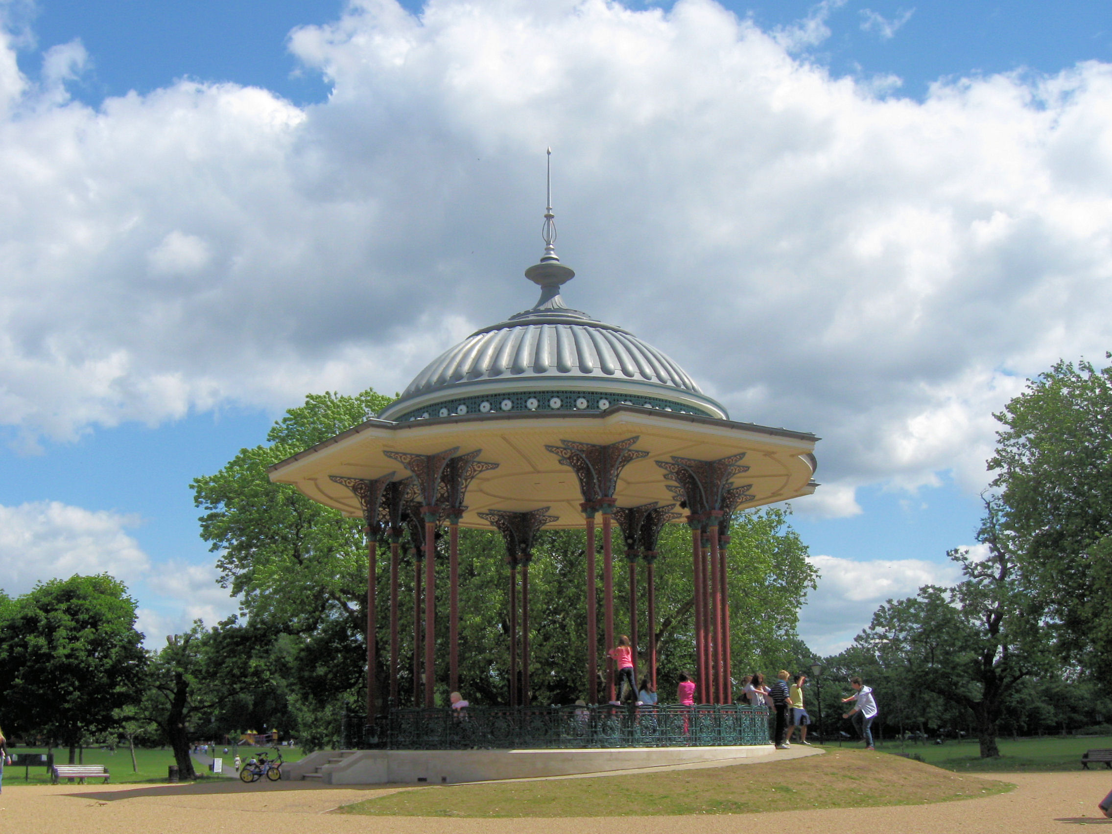 The Victorian Bandstand at the centre of Clapham Common. This has been repaired and looks a lot better than it did four years ago 153934